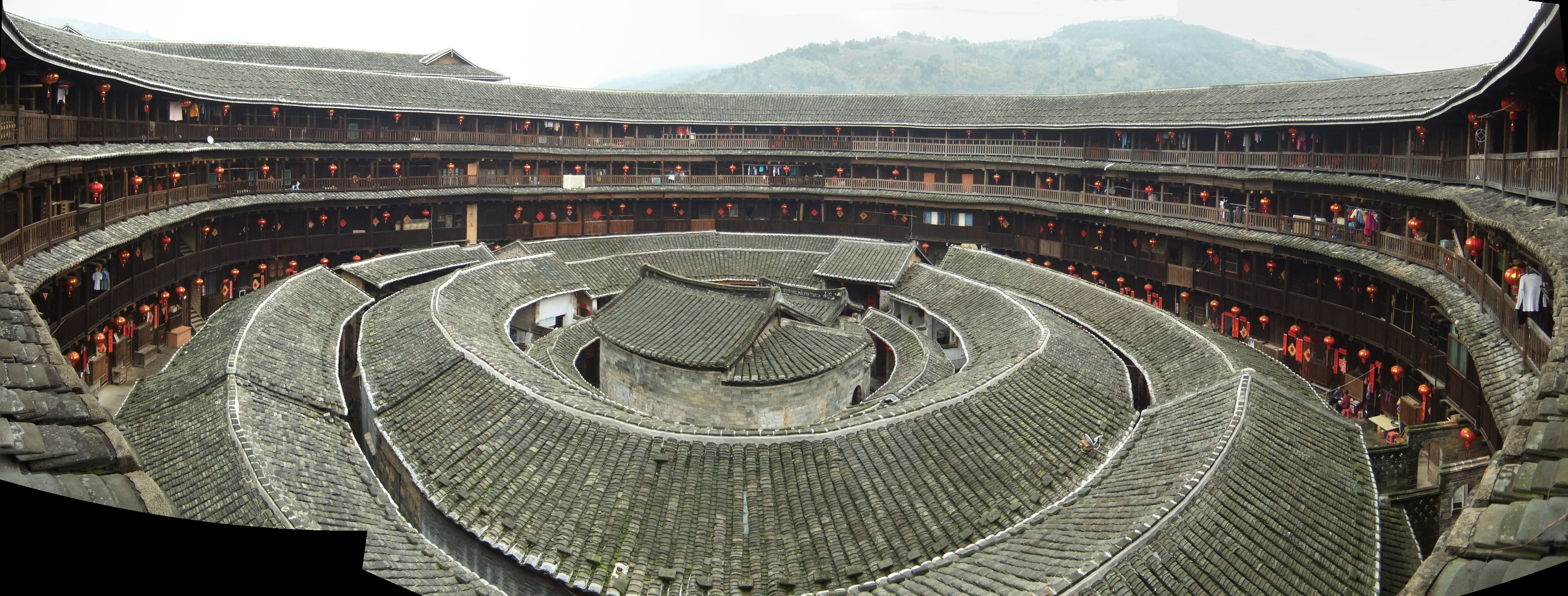 Panoramic view of the interior of Chengqi Lou, seen from the interior 4th floor gallery on the northwestern side of the building. Stitched from 3 separate photos.